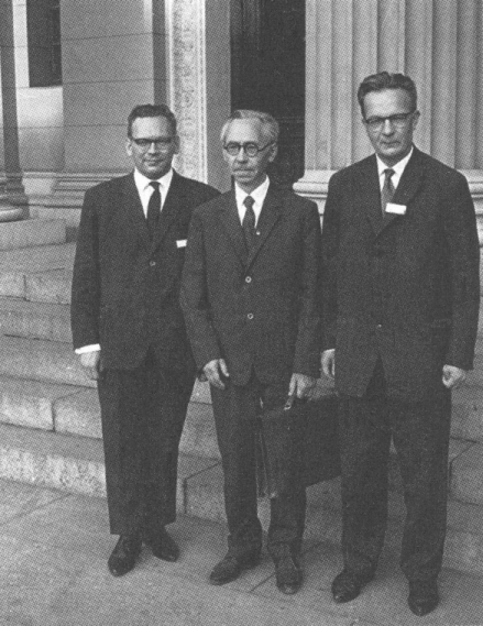 Photograph of the Estonian folklorist Ülo Tedre (1928–2015), Estonian writer August Annist (1899–1972) and Finnish folklorist Matti Kuusi (1914–1998) at the Fenno-Ugric Congress in Helsinki, House of Estates.